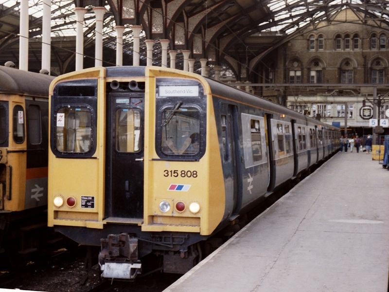 Class 315 EMU no 315-808 on the Liverpool Street-Southend Victoria line at Liverpool Steet station.